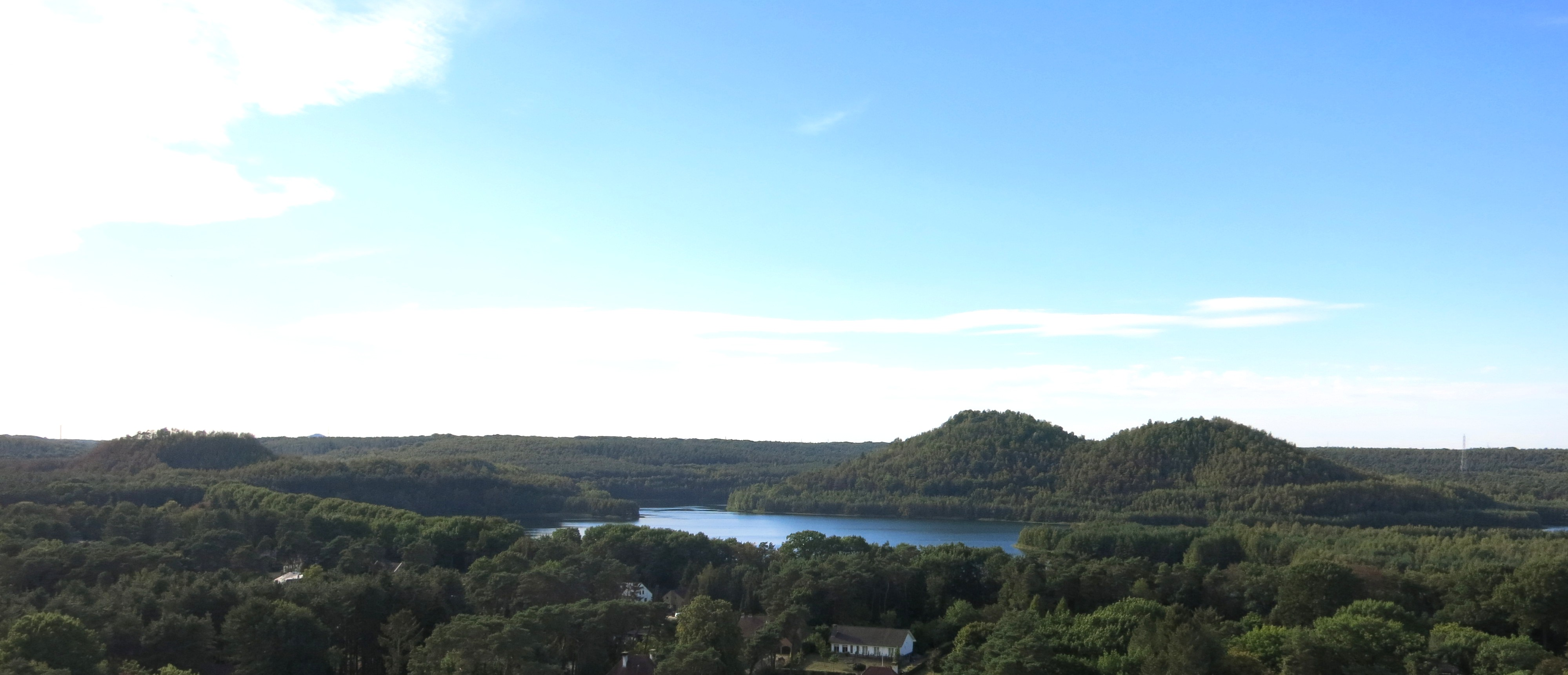 3 of the 4 spoil heaps of the coal mine of Eisden (Maasmechelen) Belgium